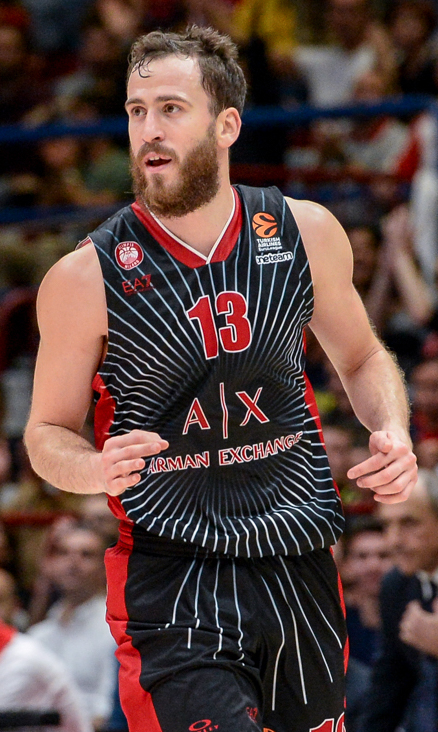 Foto a cura di Claudio Degaspari